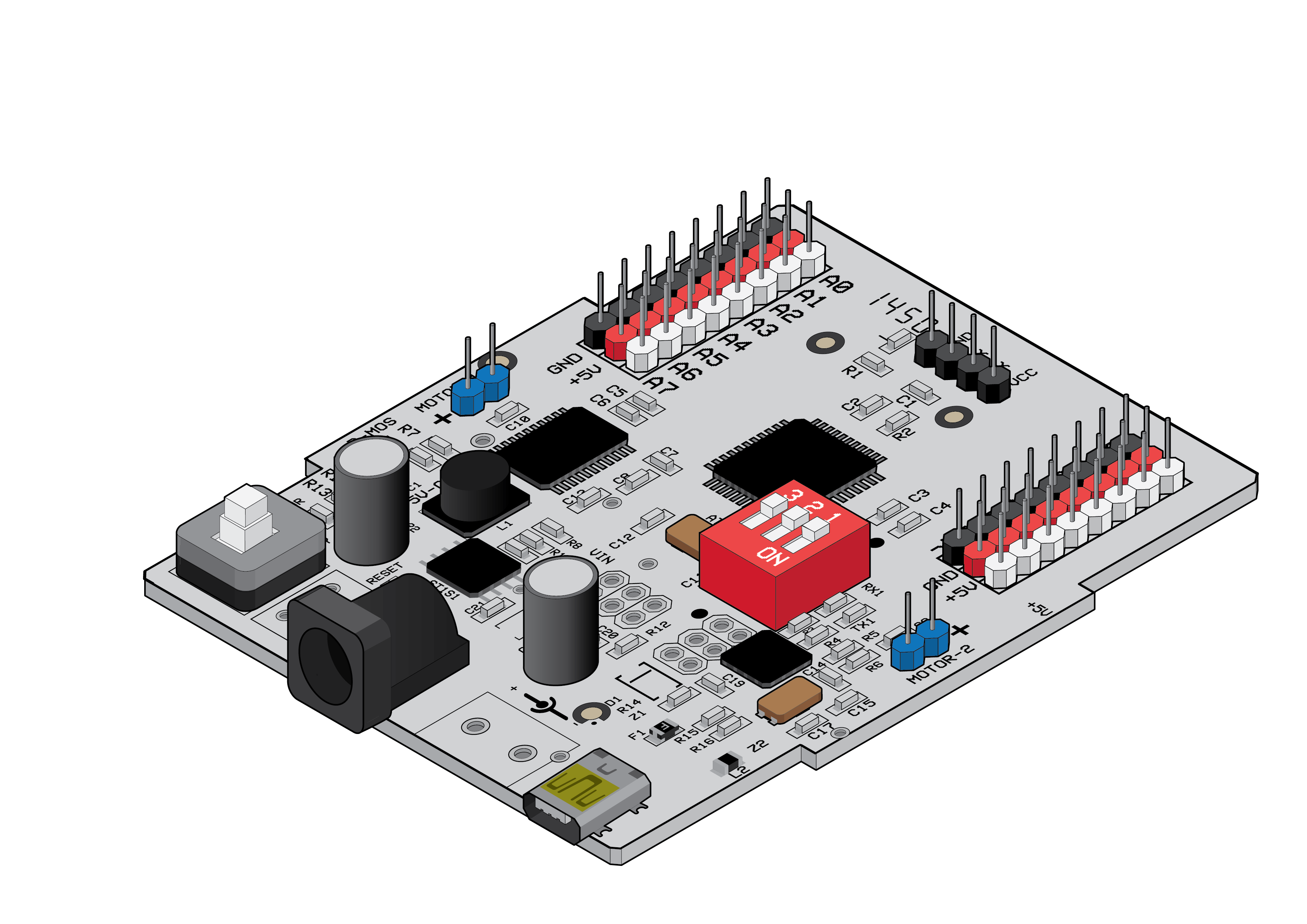 Snowball-MCU